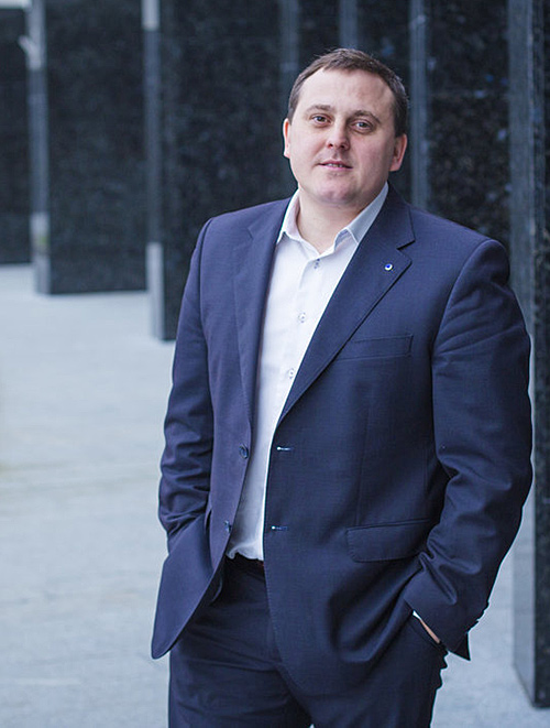 Osipov Andrii